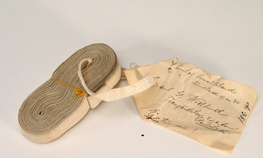 A bundle of band by the Swedish damask weaver Carl Widlund (1887-1968), in the exhibit in Karlstad in 1922 (Hemslöjdsutställningen i Karlstad 1922).